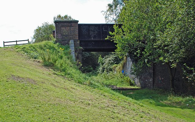 Netherton Park Iron bridge at the bottom of Greaves Road which crossed the Withymoor Basin branch of the Great Western Railway.